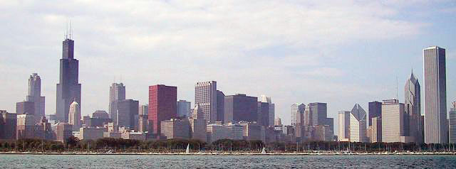 This is a photograph of the skyline of Chicago, Illinois, U.S.